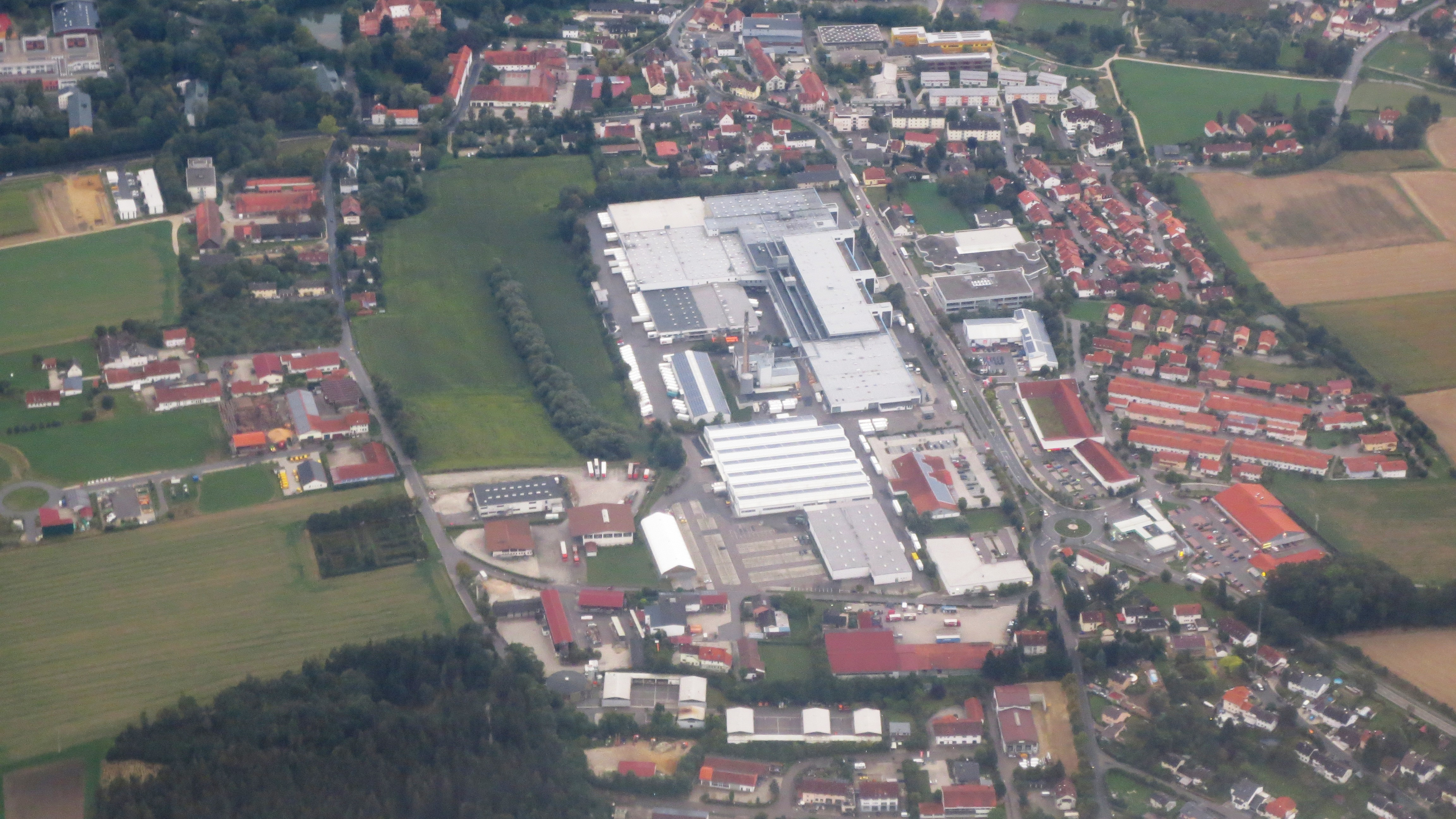 Taufkirchen (Vels) in Bavaria, just east of Munich. The Himolla furtiture factory is clearly visible.